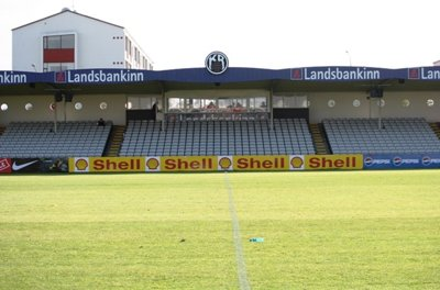 KR Reykjavík's stadium